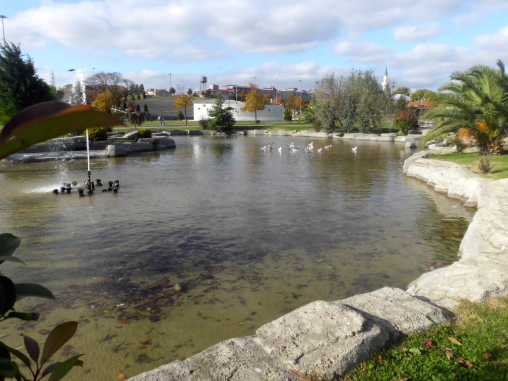 topkapı2